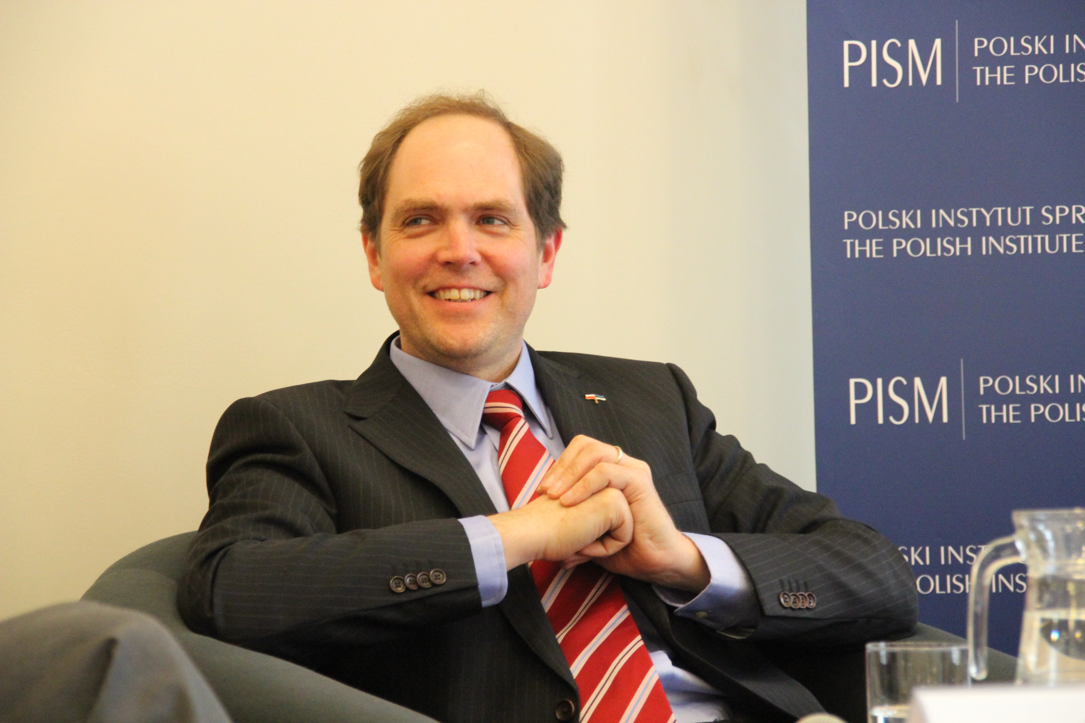 Professor of Baltic politics at Tartu University Andres Kasekamp at the unveiling of the Polish-language translation of the book “A History of the Baltic States” at the Polish Institute of International Affairs